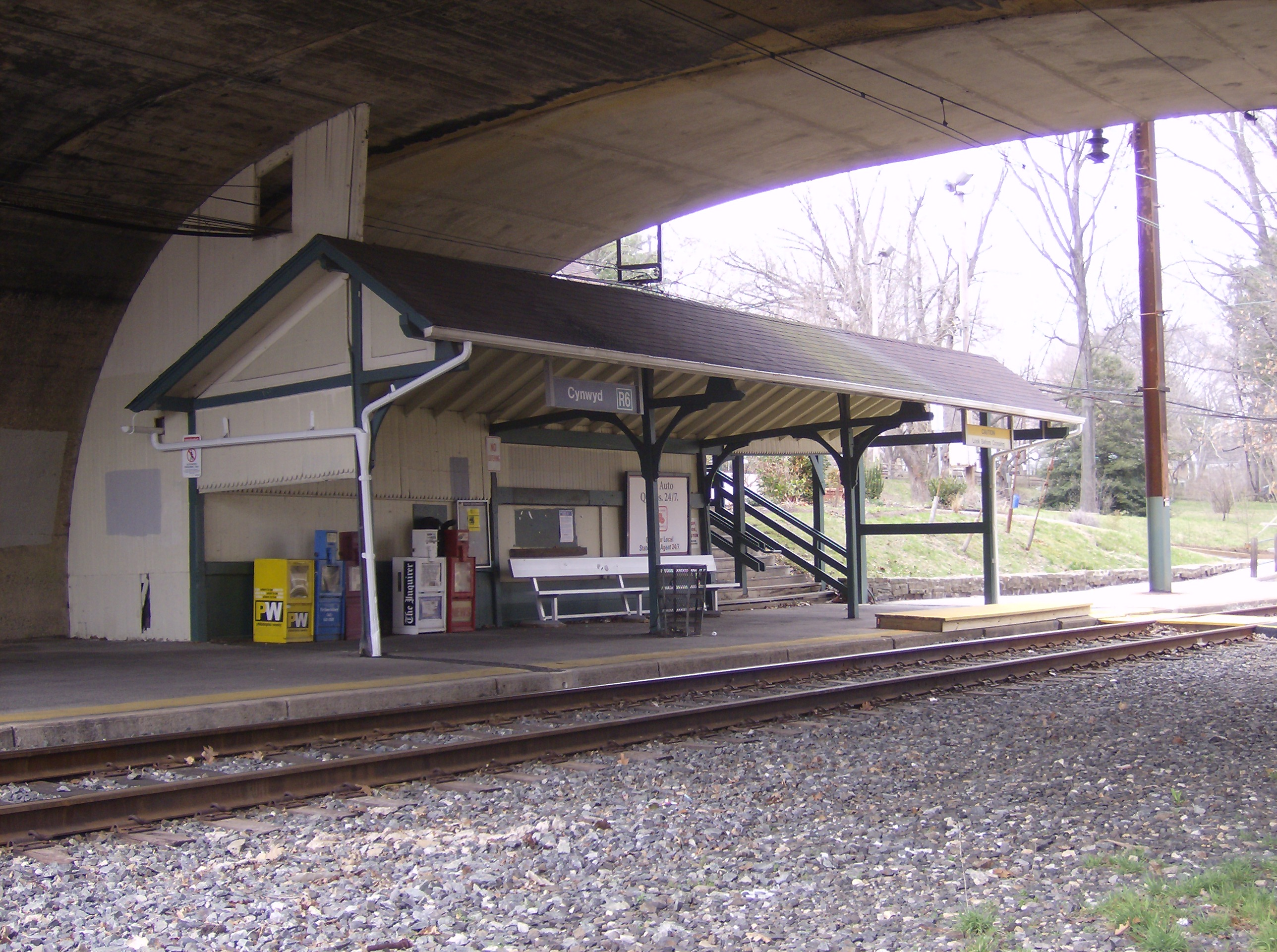 Cynwyd Station platform beneath the Montgomery Avenue Bridge, in Cynwyd, Pennsylvania.